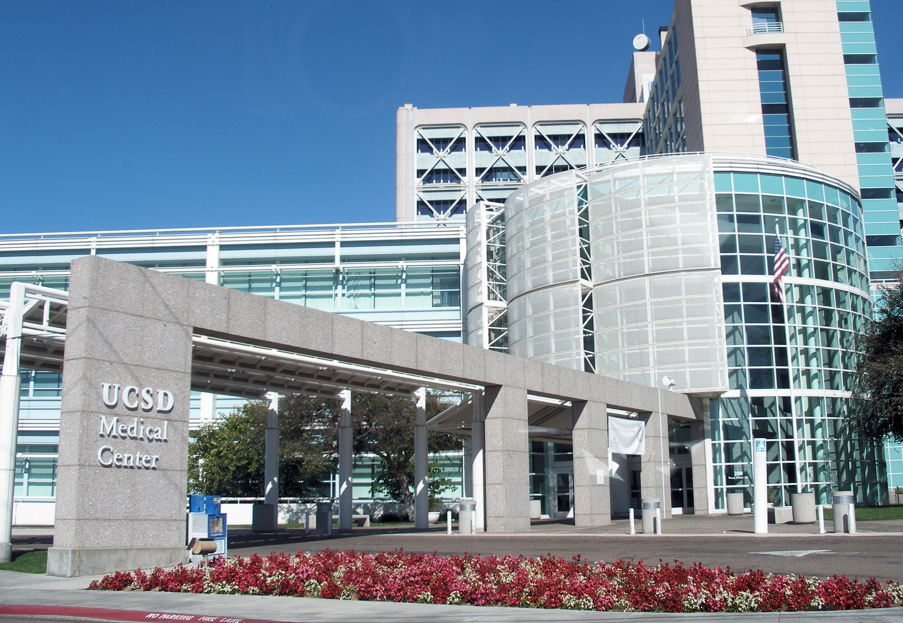 Main entrance to UCSD Medical Center Hillcrest.